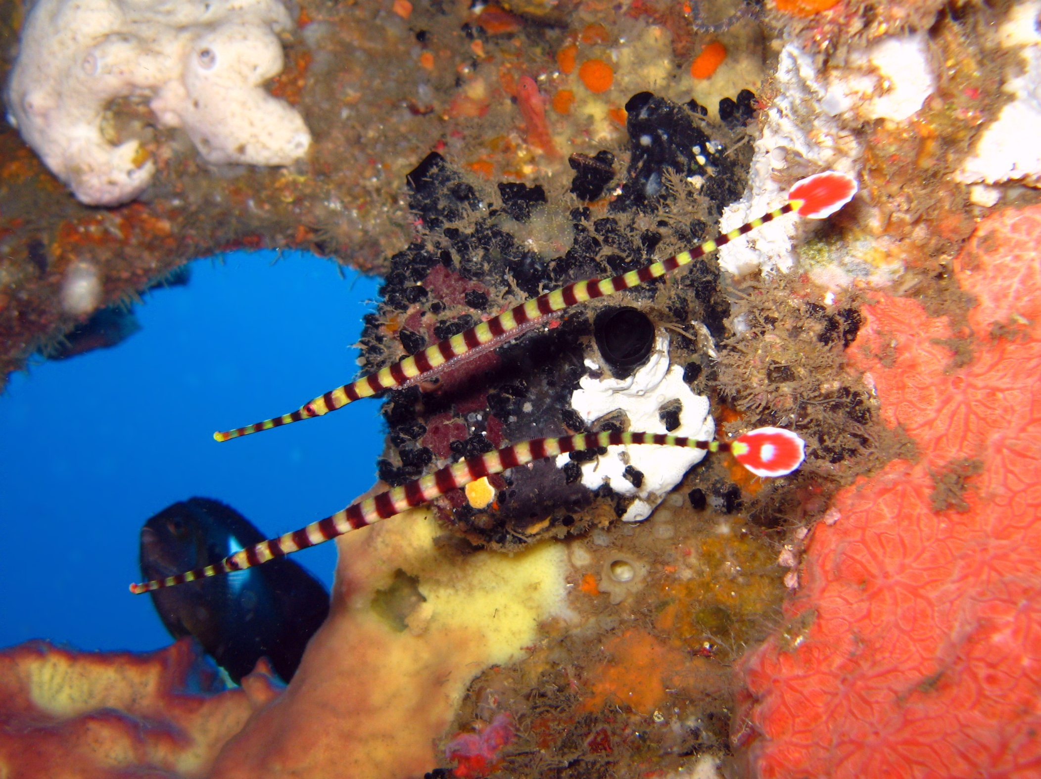 Broadbanded Pipefish (Dunckerocampus dactyliophorus), above a male with eggs. Indonesia, July 2007